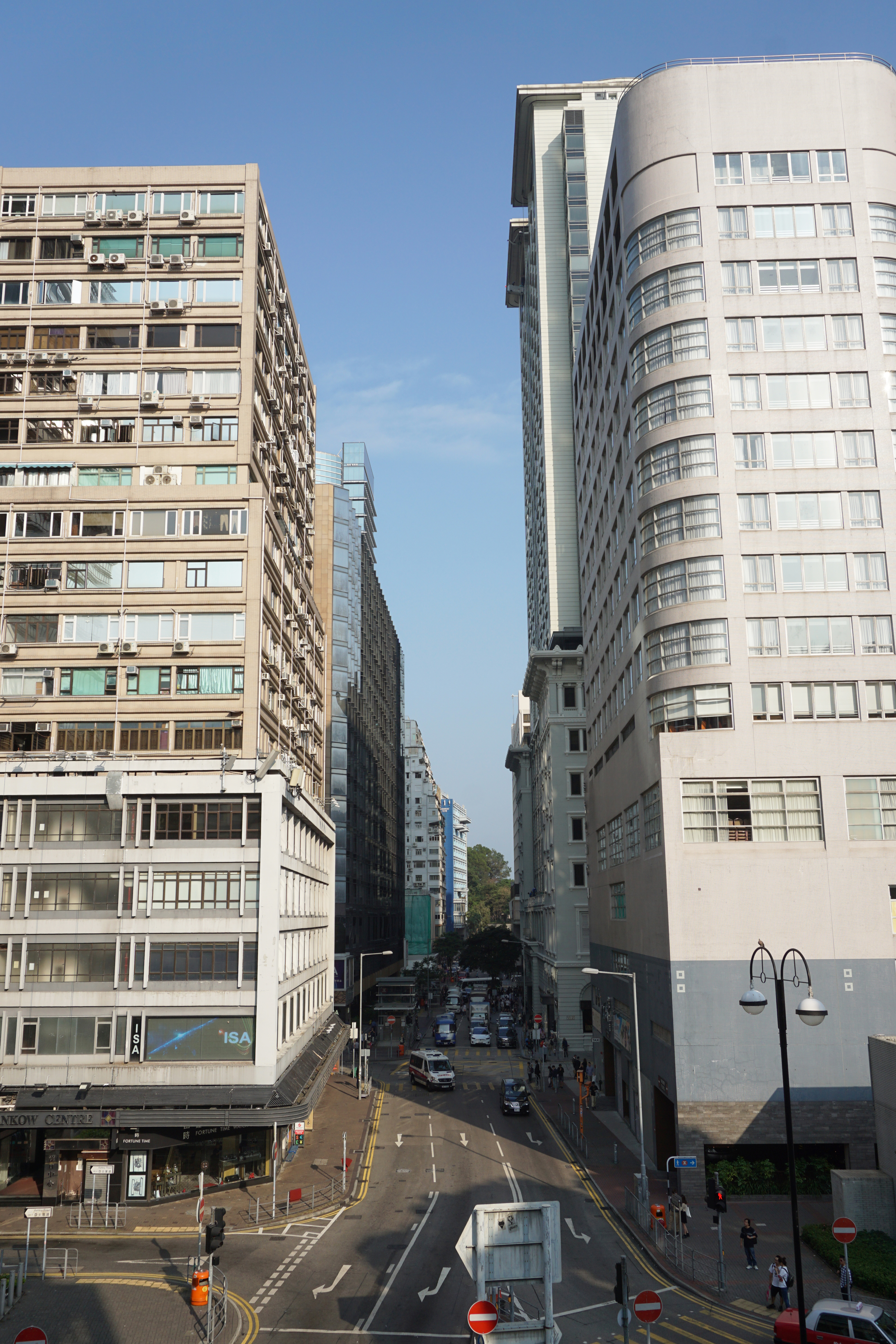 Middle Road in Tsim Sha Tsui, Hong Kong.